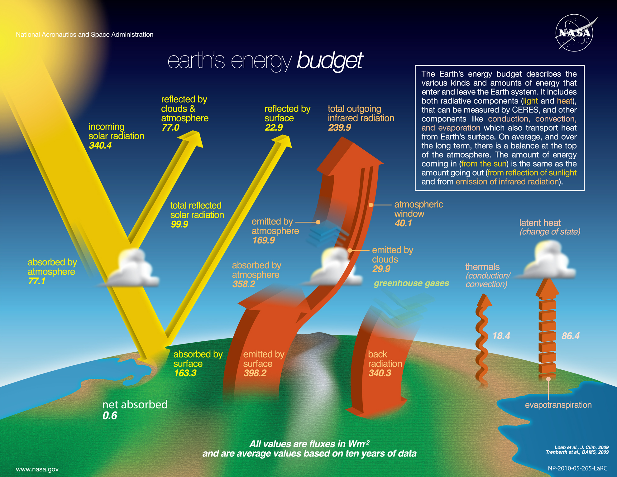 Earth's energy budget, with incoming and outgoing radiation (Values are shown in W/m2). Satellite instruments (CERES) measure the reflected solar and emitted infrared radiation fluxes. The energy balance determines Earth's climate.